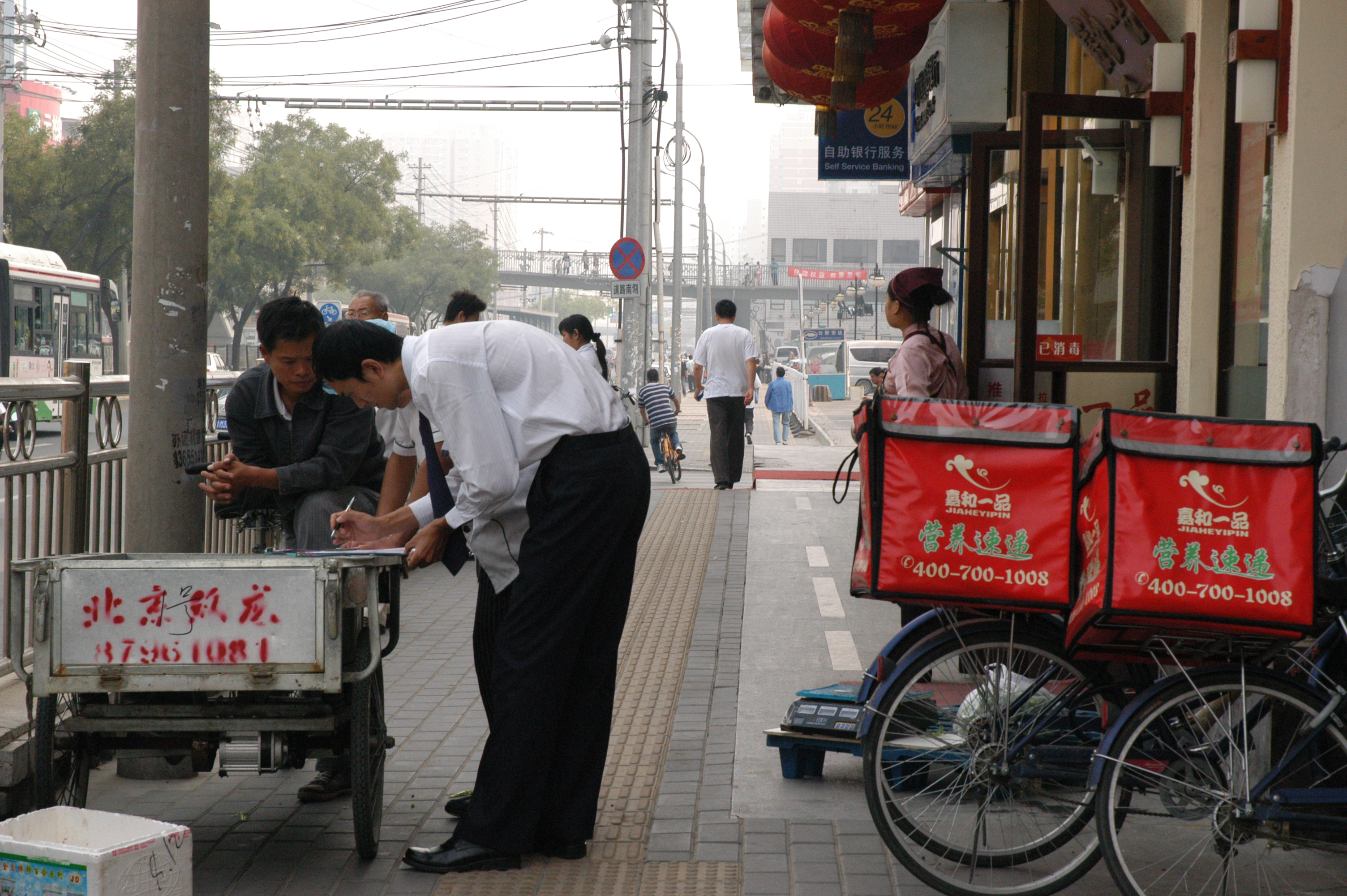 Typical vendor conducting business in China. Beijing China. Chaoyang District.